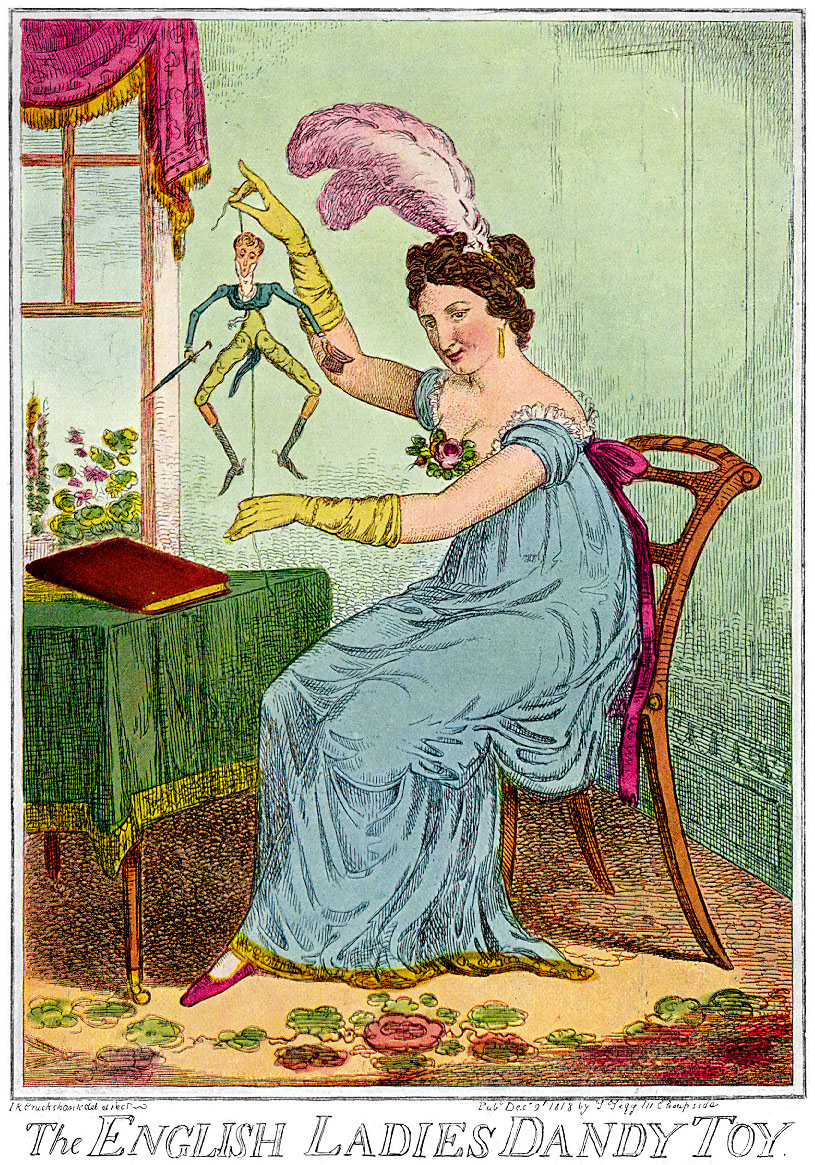 a rather heavily symbolic Dec. 9th 1818 caricature. The toy she's holding is a jumping jack (where pulling the string moves the arms and legs), but is shaped to resemble a dandy of the period.